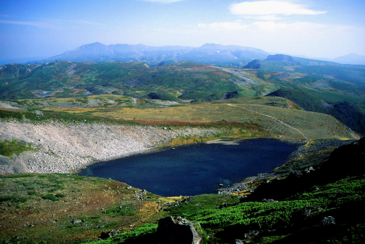 Daisetsuzan and Pond Kitanuma seen from Mount Tomuraushi